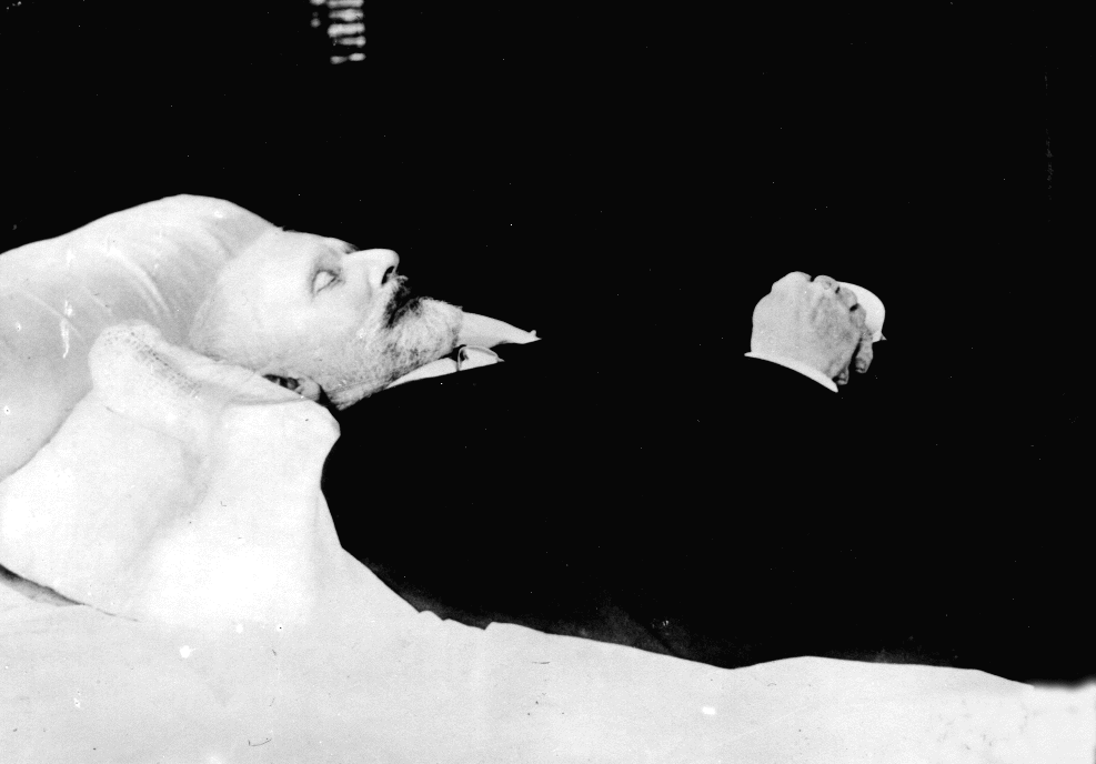 Pyotr Ilyich Tchaikovsky on his deathbed. Saint Petersburg, (25 October-6 November 1893).